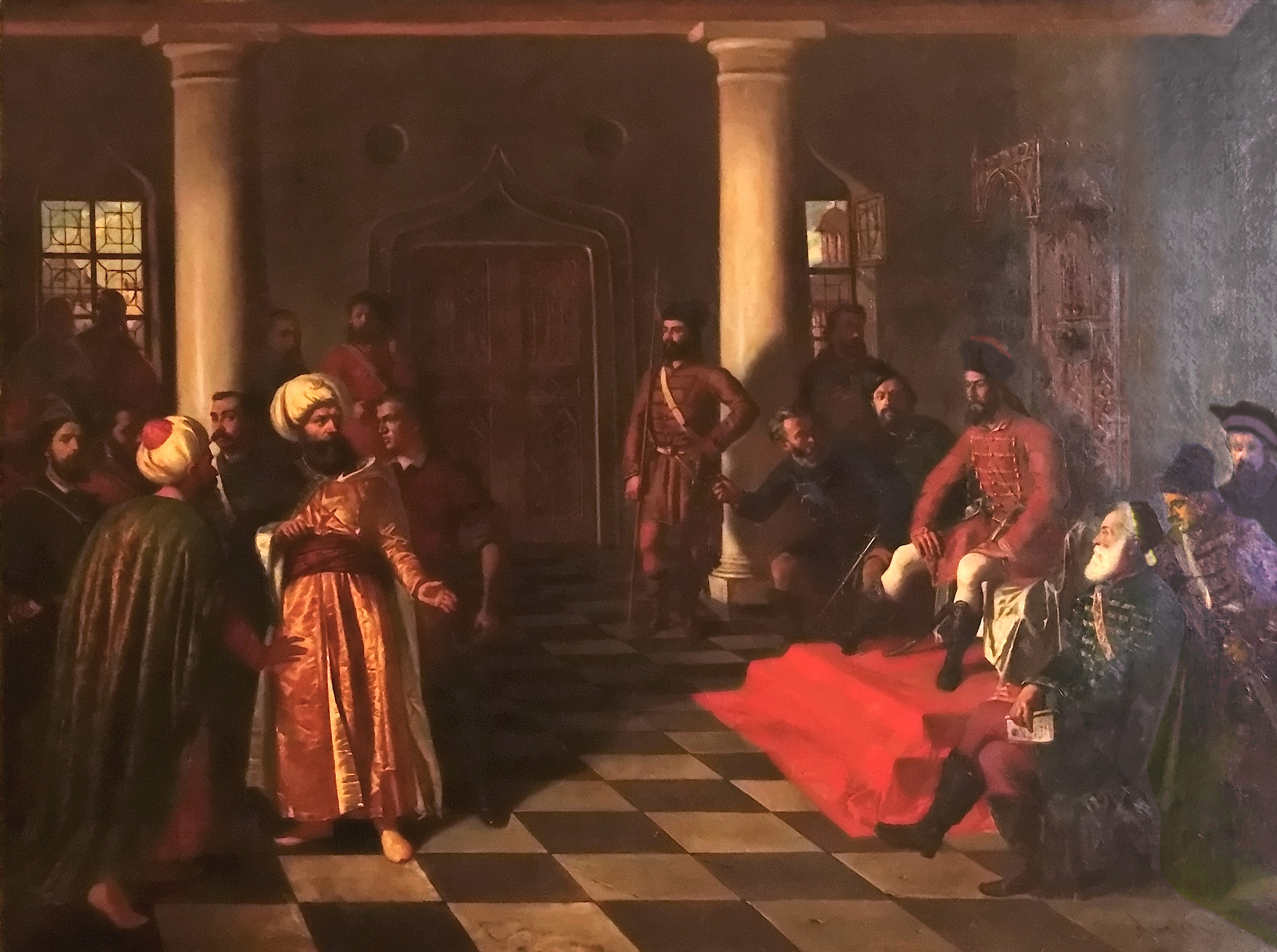 Vlad the Empaler and the Turkish Envoys